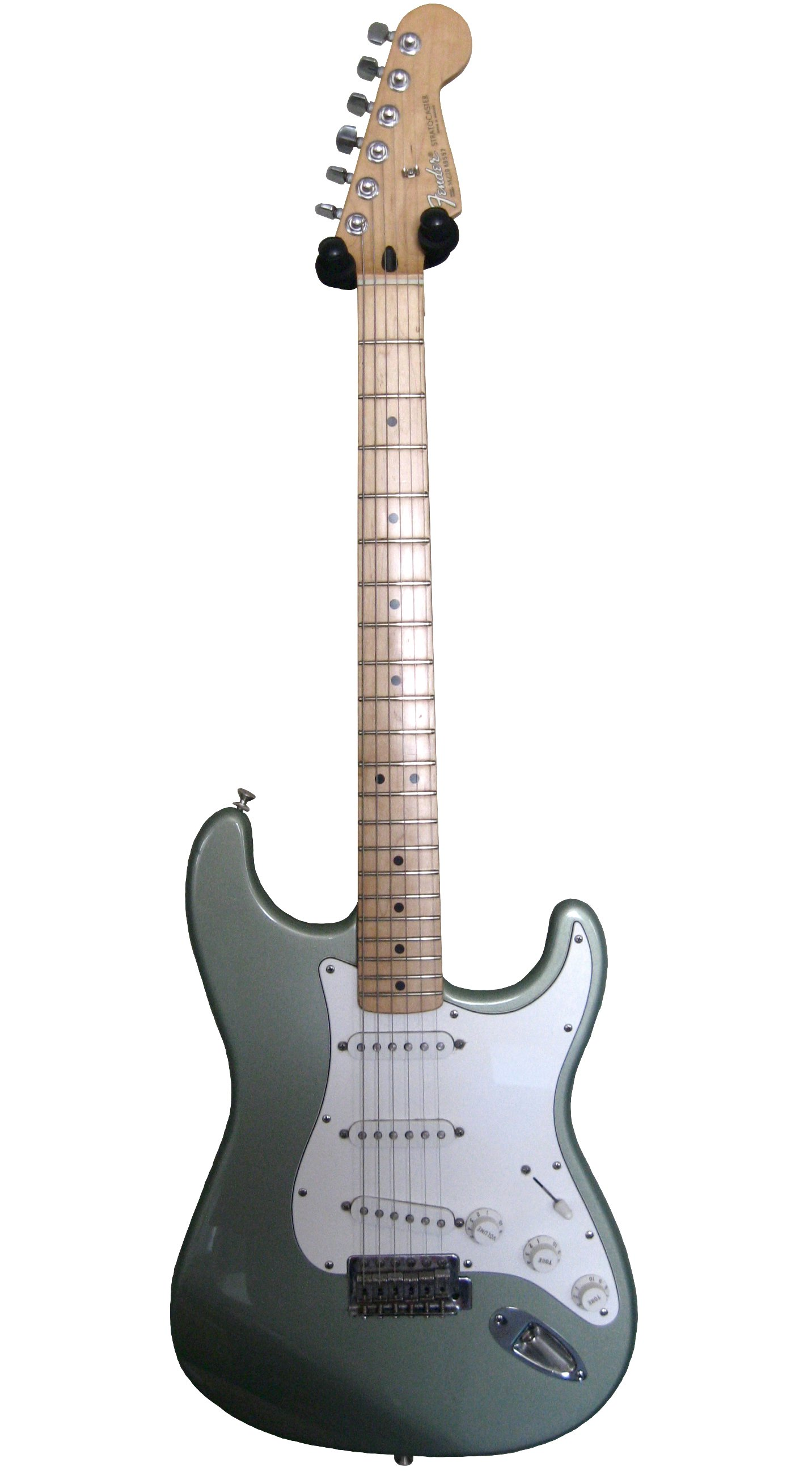 High quality photo of a Fender Stratocaster